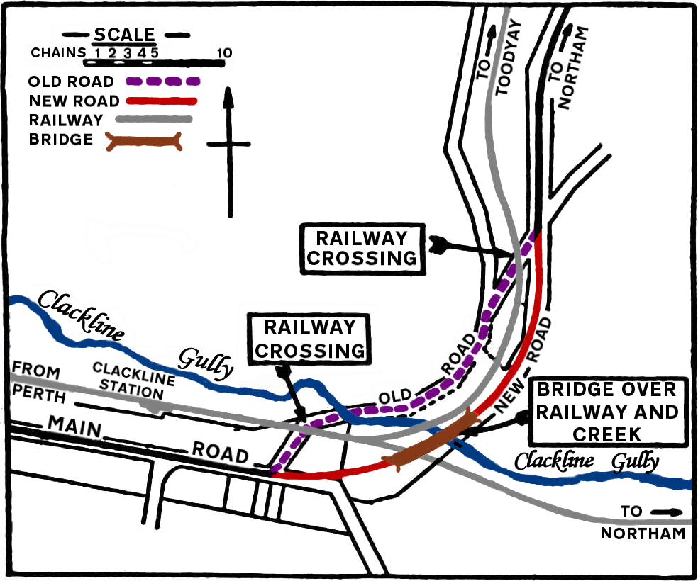 A plan from 1935 showing the location of the then-new overhead bridge over the gully at Clackline, Western Australia, to be opened by the Acting-Minister for Works (Mr. H. Millington). A new portion of the main road between Perth and Northam was constructed to serve the bridge and avoid a dangerous deviation and two railway crossings.